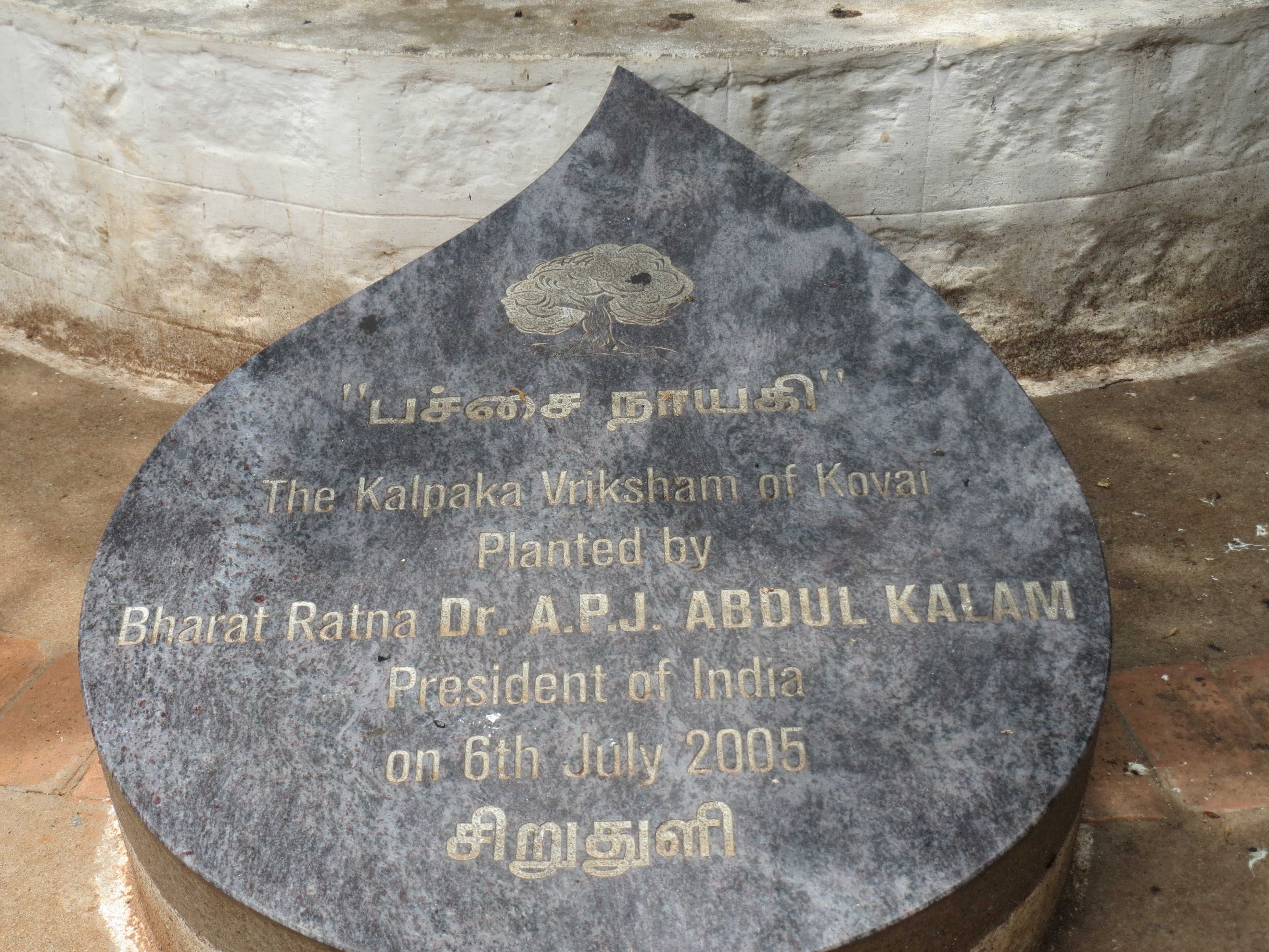 Information Board-Voc Park: A sapling planted by Former Indian President Abdul Kalam, at Voc Park.